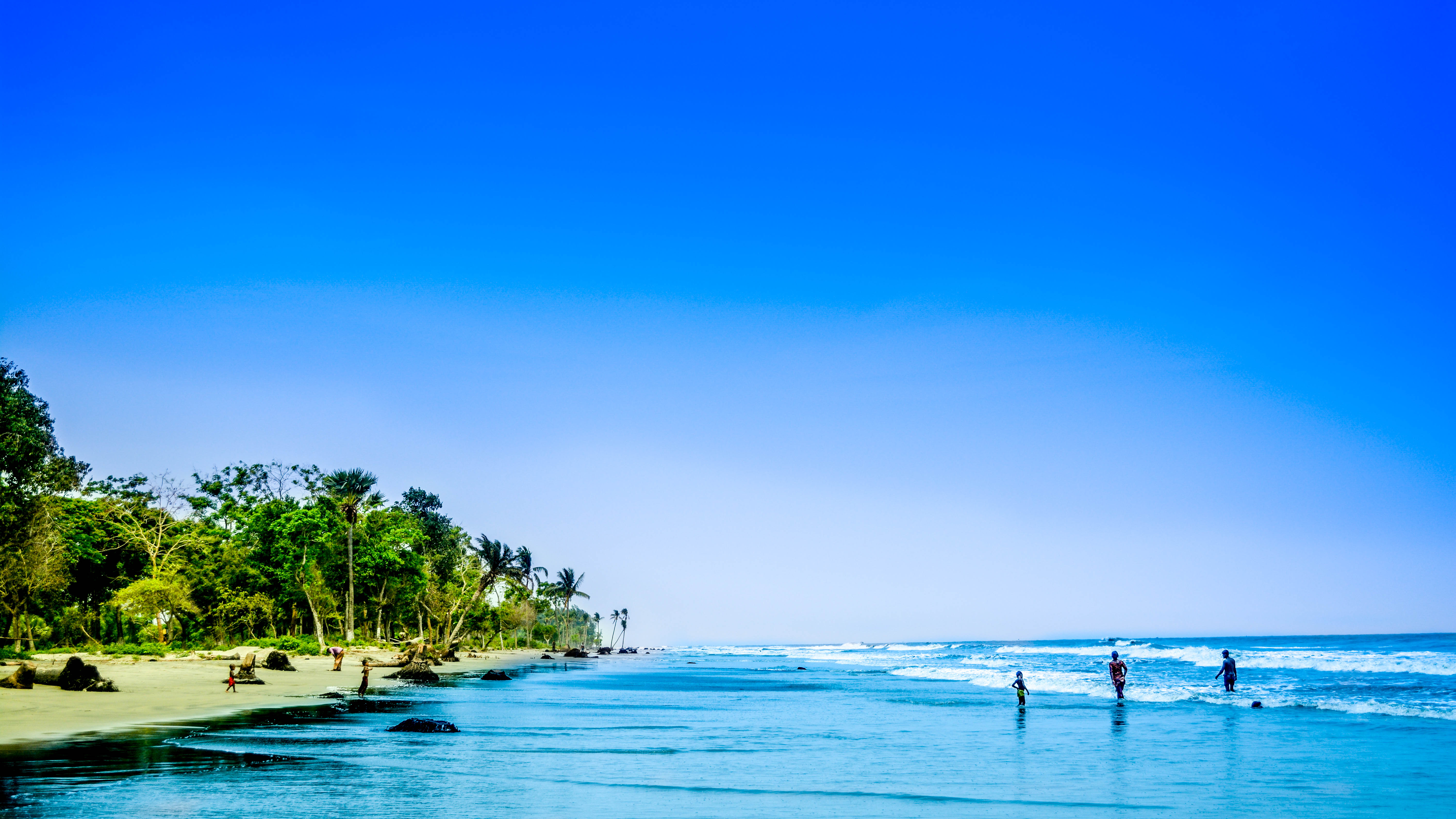 Kuakata is known as "Shagor konnya"(daughter of sea) in Bangladesh. It is renowned for it's beautiful sunrise & sunset view.